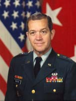 Service photo of Major General Henry Gene Skeen (U.S. Army retired).